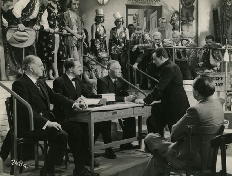 Scene from the Hungarian movie titled A varieté csillagai (released in 1939)